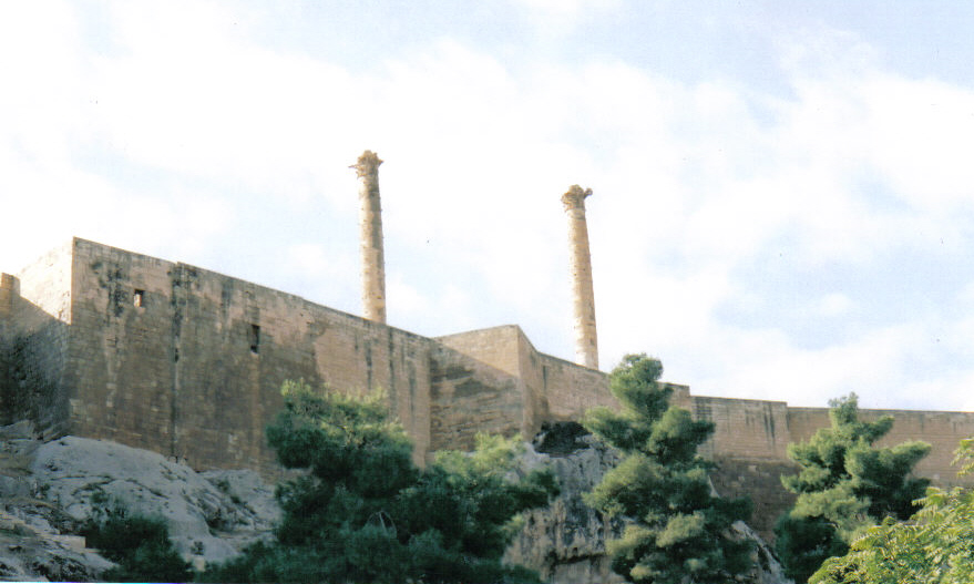 Urfa Castle in South Eastern Turkey, whose towering columns were built by the Romans. (C) Gerry Lynch, 2003.